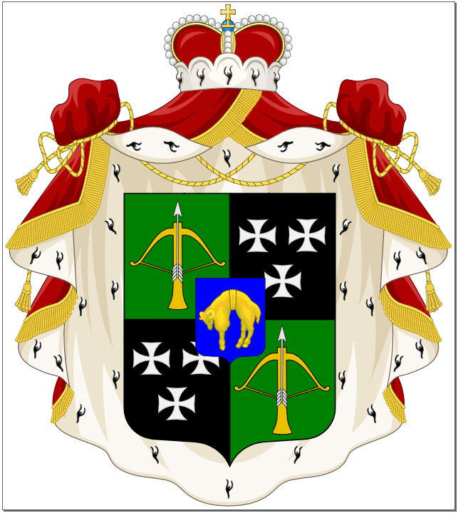 Coat of arms of princes Inal-Ipa